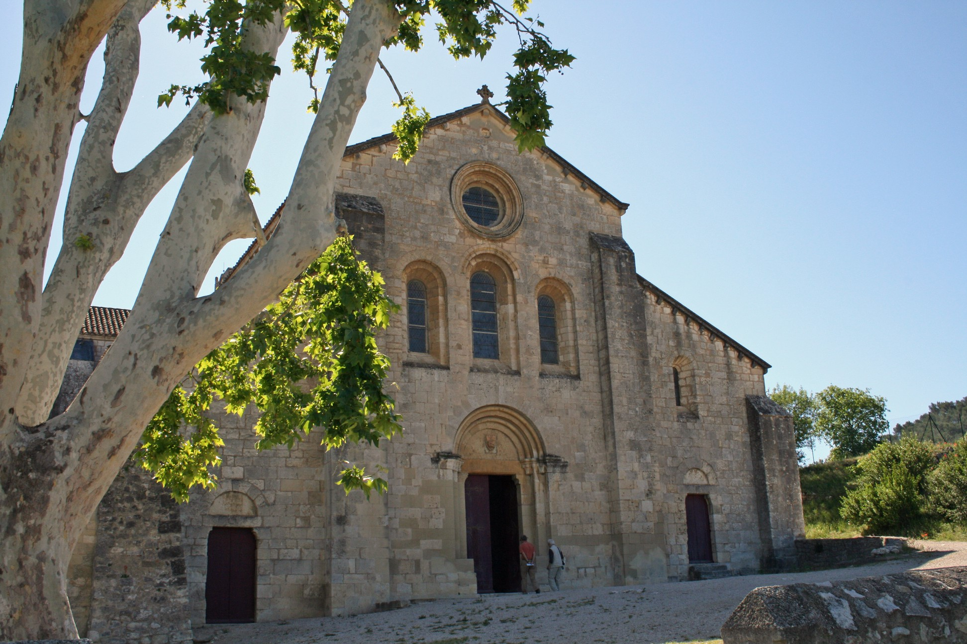 Church of Silvacane Abbey